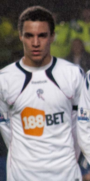 Rodrigo, formerly of Bolton Wanderers. This file has been extracted from another file: Florent Malouda free kick - Chelsea vs Bolton Wanderers.jpg